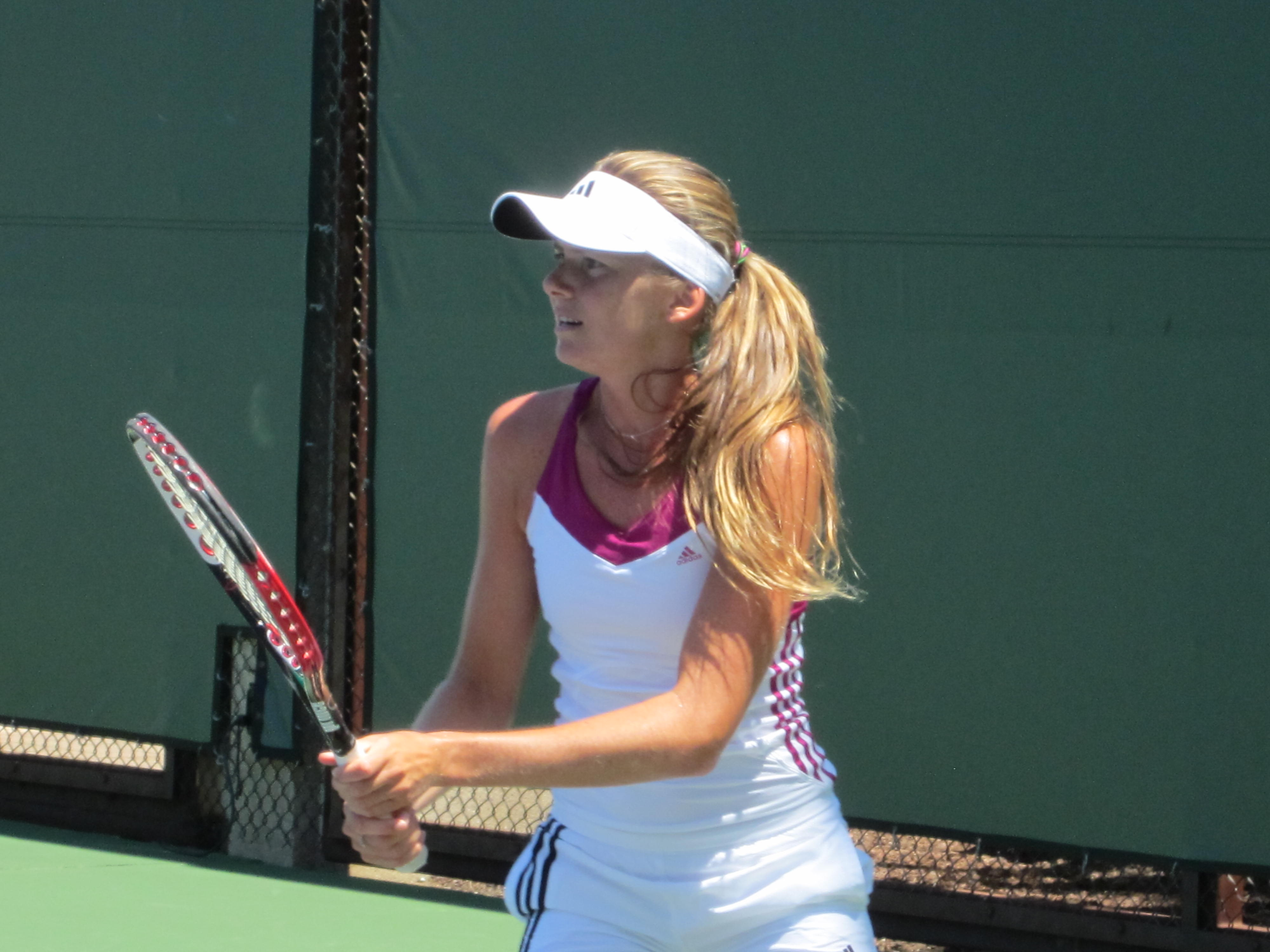 Daniela Hantuchová practicing at the Bank of the West Classic at Stanford.